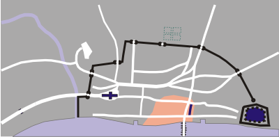 Spread of the Great Fire of London, by Sunday, Sept 2, 1666. Drawn by myself in Corel Draw.